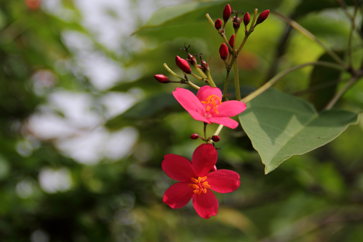 Photo place: Guangzhou City, China Conmmon name: Peregrina, Spicy Jatropha